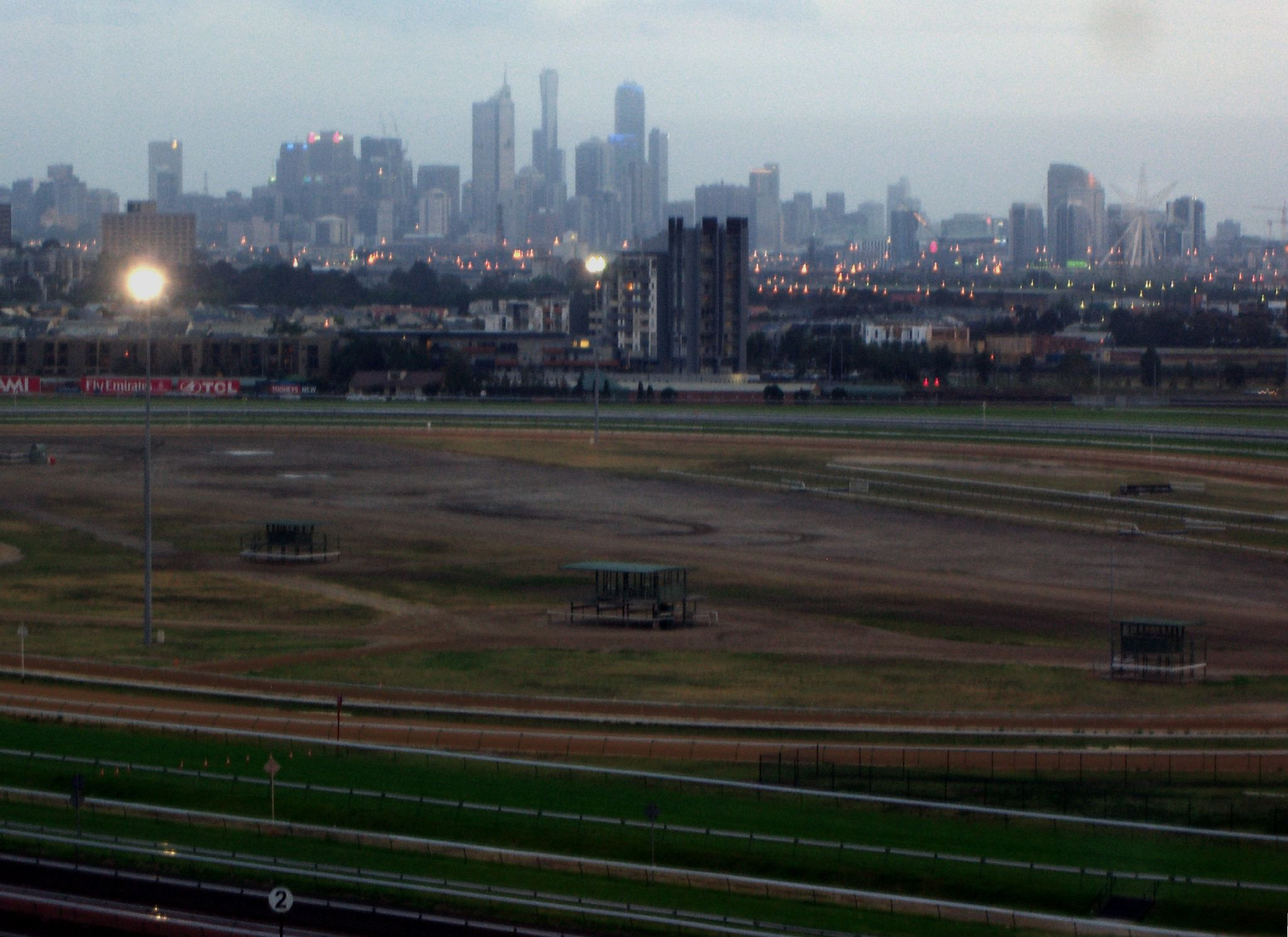 Flemington Racecourse with Melbourne in the background.